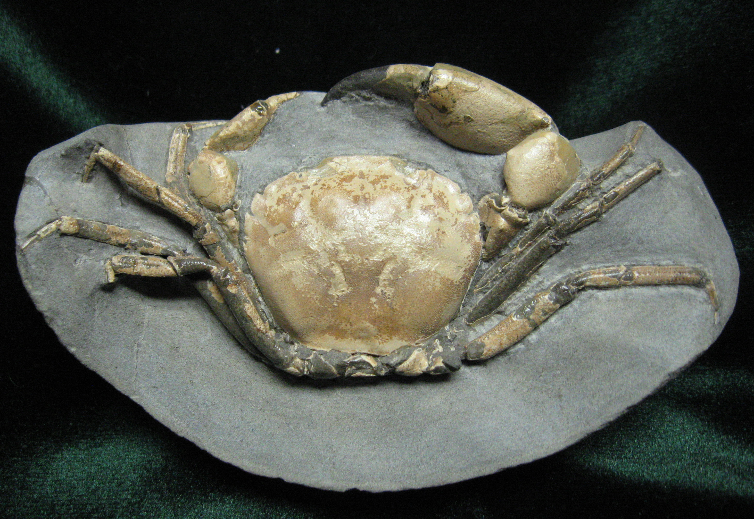 A fossil Branchioplax washingtoniana with a 4cm wide carapace, in a surf worn cobble from the Eocene Hoko River Formation, Clallam County, Washington, USA. Stonerose Interpretive Center gary Eichhorn crab collection #SR EC 07-01-12